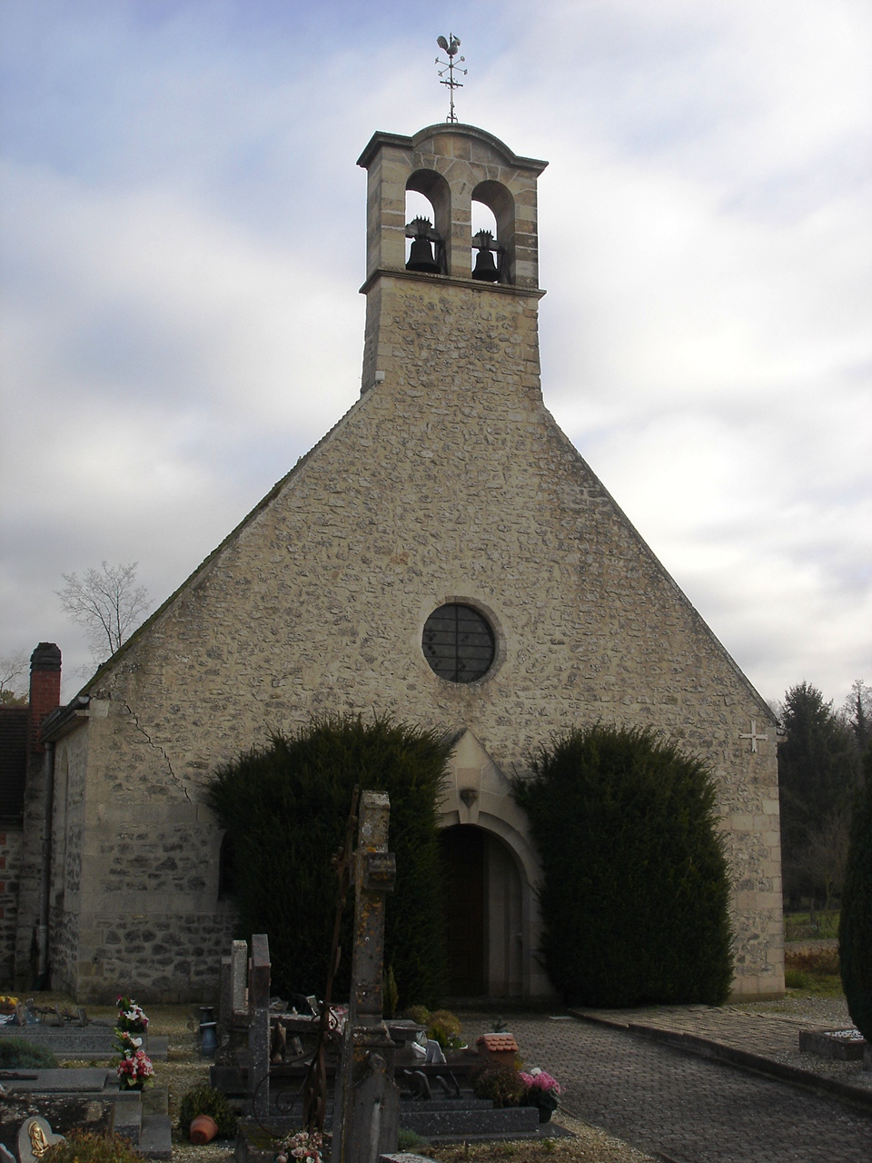 Saint Etienne church of Écury-le-Repos, France